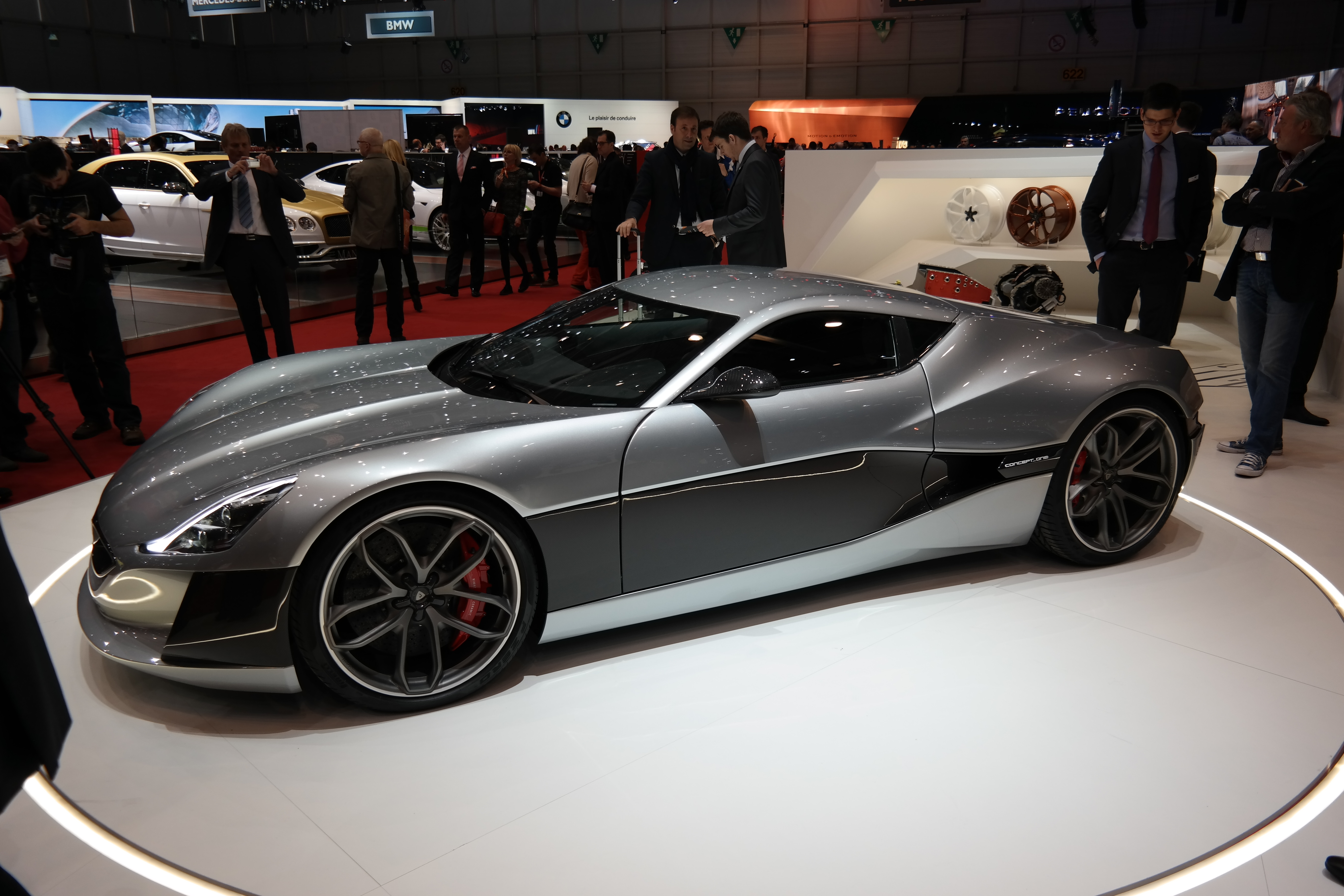 Geneva Motor Show 2016 (photo taken on the first press day)